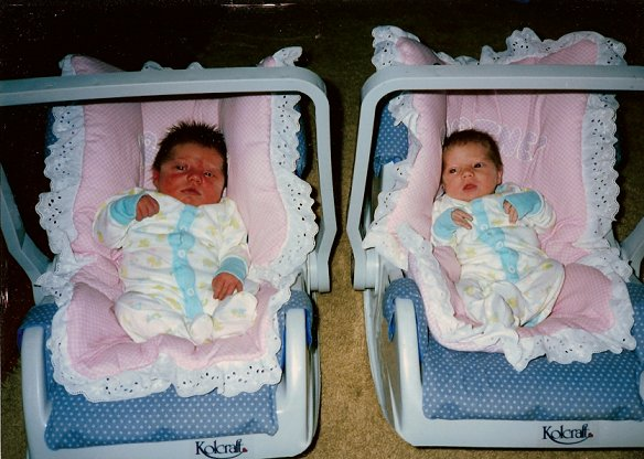 A pair of newborn twins affected by TTTS [twin-to-twin transfusion syndrome]. Both the donor (right) and recipient (left) survived. (created 1988; private photo released to public)